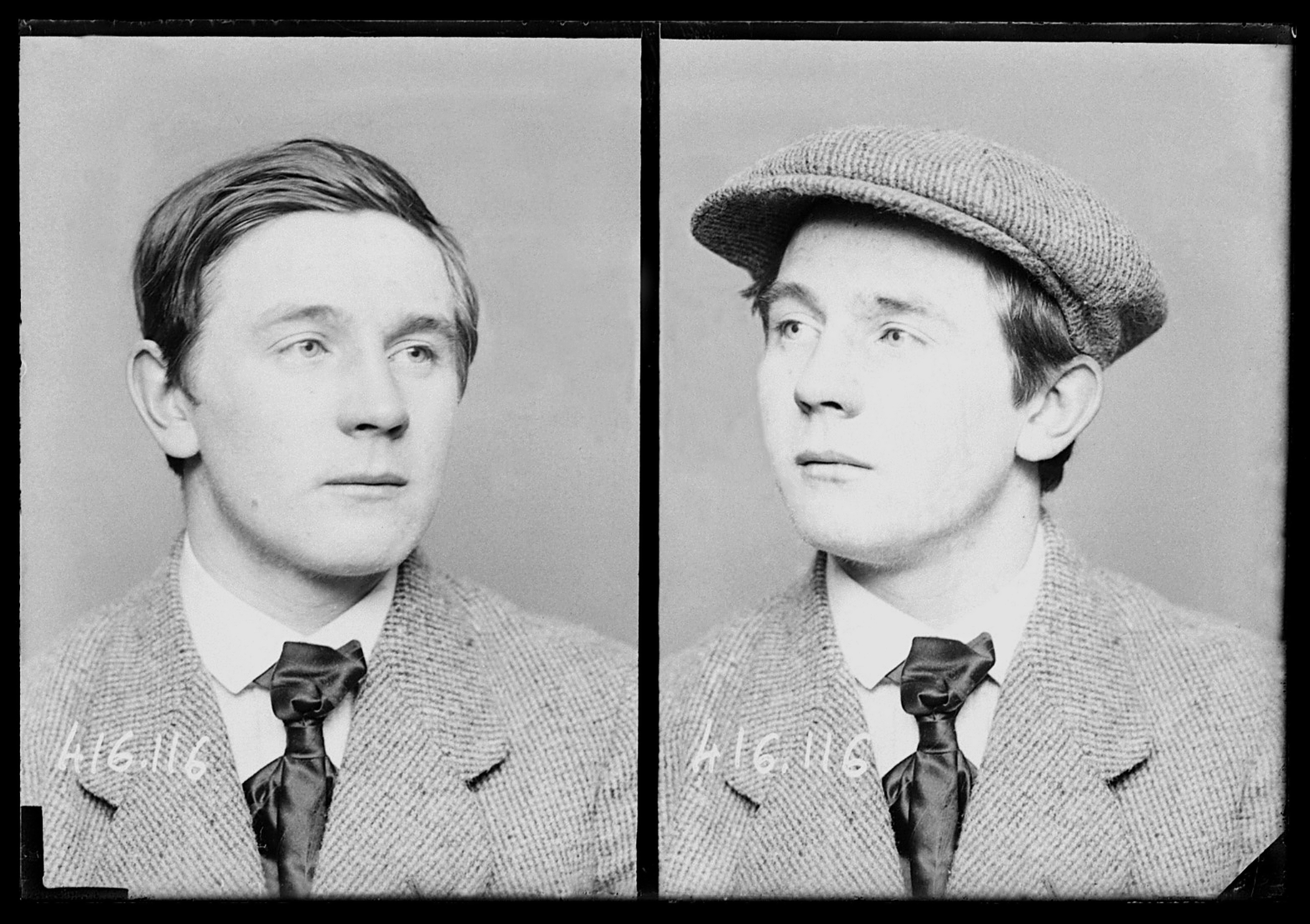 Raymond Callemin (1890 - 1913), belgian anarchist et criminal, member of the Bonnot Gang, Bande à Bonnot, executed by guillotine.